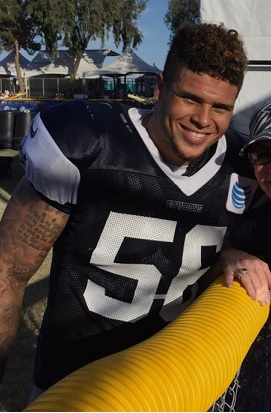 Dallas Cowboys Training Camp 2015 Keith Smith #56